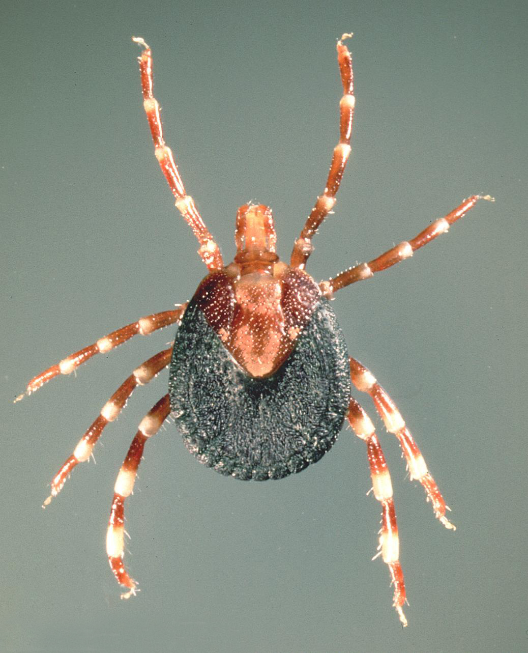 Dorsal view of an unfed adult female of the hard tick Amblyomma variegatum, from Africa.